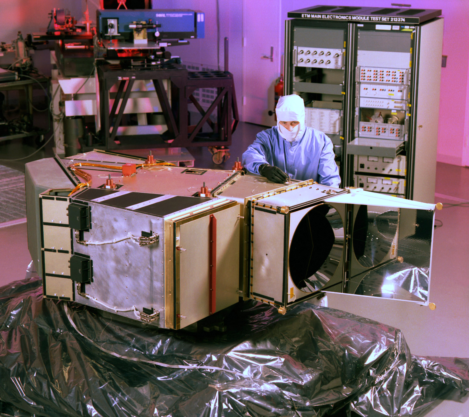 An engineer with the Landsat 7 ETM+ instrument in cleanroom.